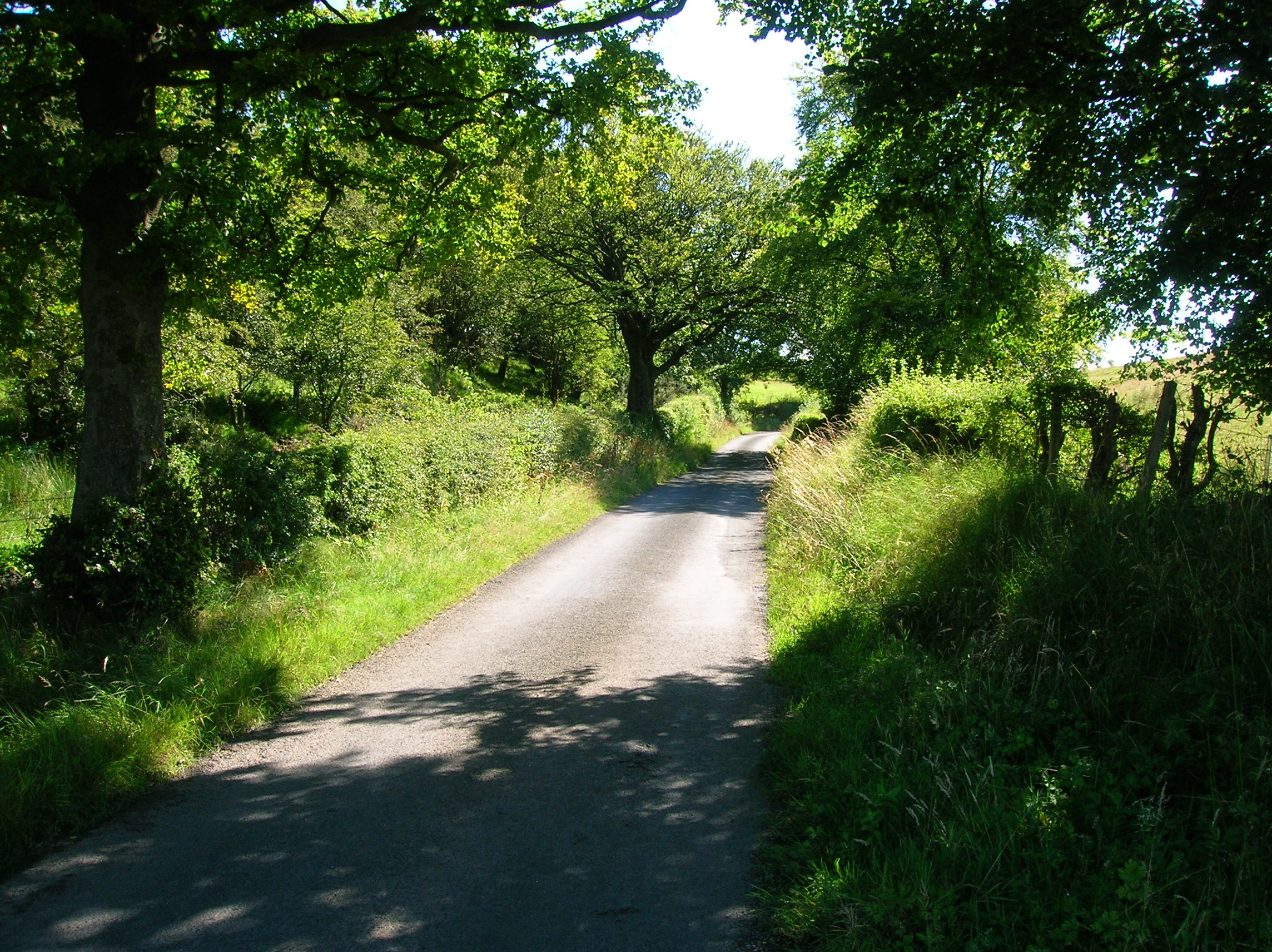 Kersland Lane, Dalry, North Ayrshire, Scotland